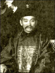 Mei Quong Tart. (image: Society of Australian Genealogists, PR 6/25/1)